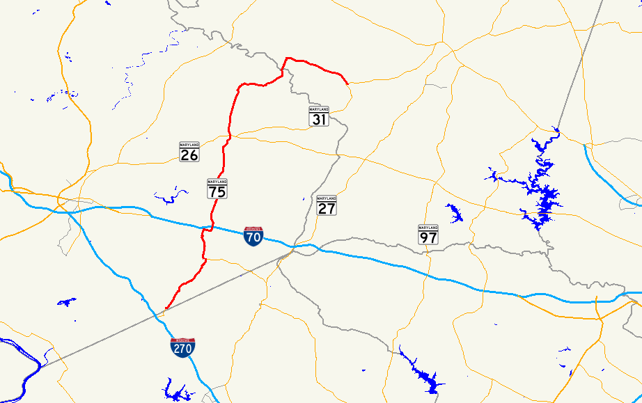 Map of Maryland Route 75